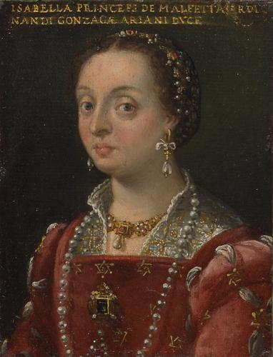 Portrait of Isabella di Capua (1510-1559), wife of Ferrante Gonzaga